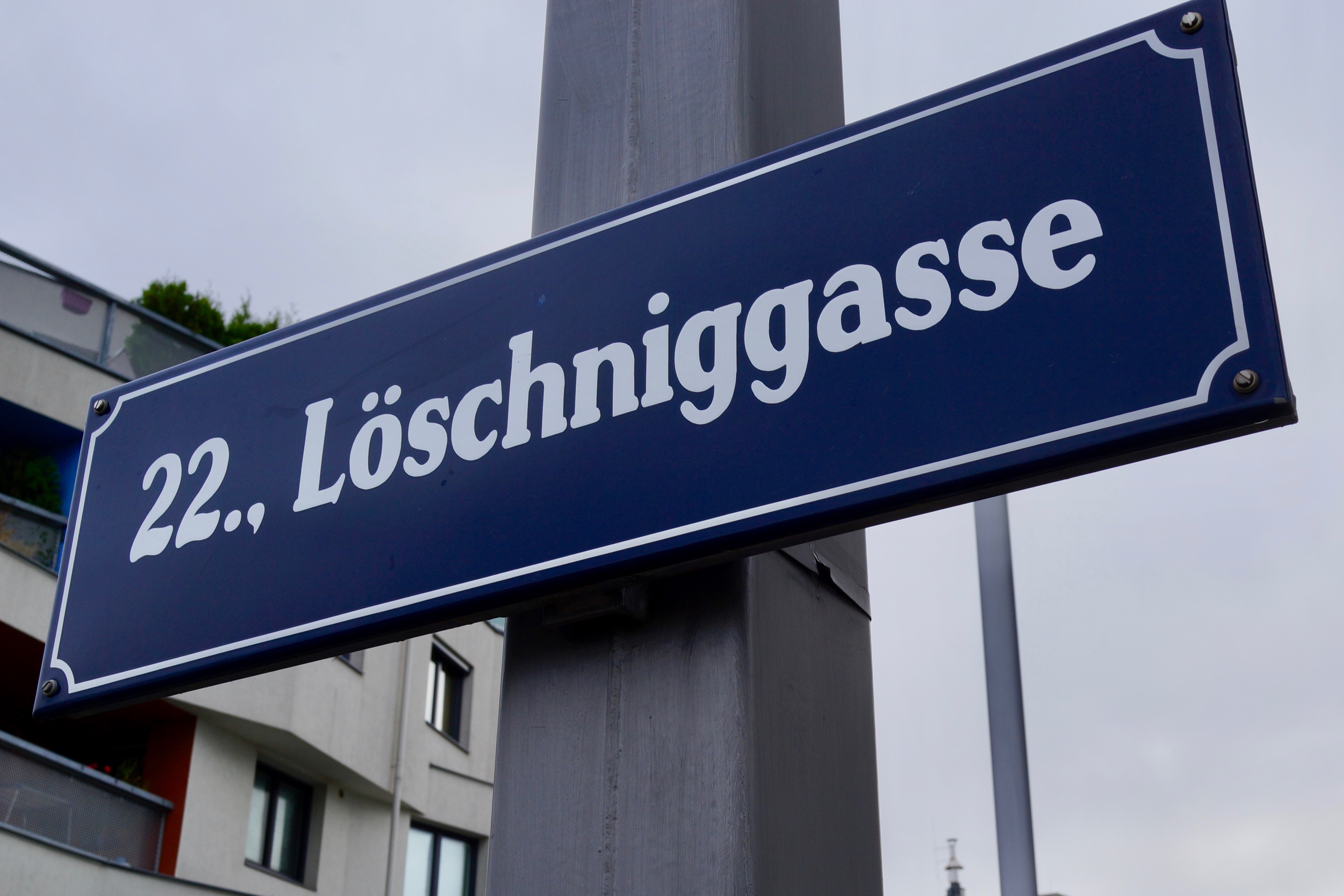 Street sign for Löschniggasse, 22. District Donaustadt, Vienna, Austria